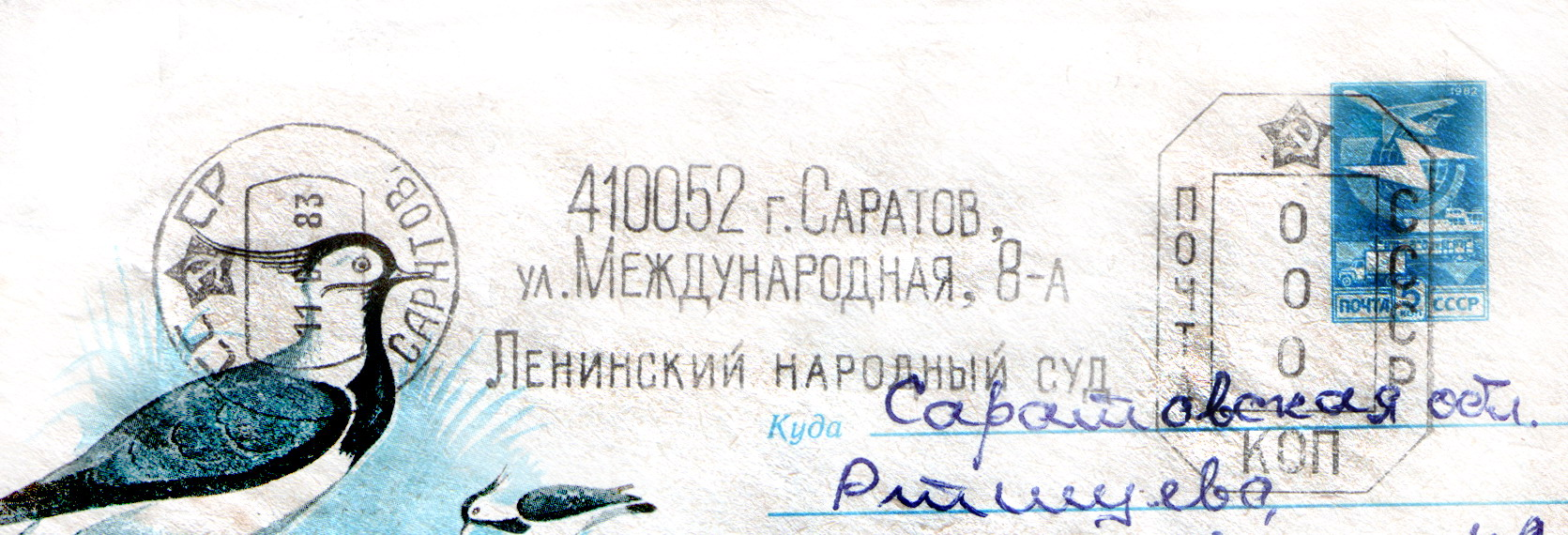 Franking of Saratov, 1983